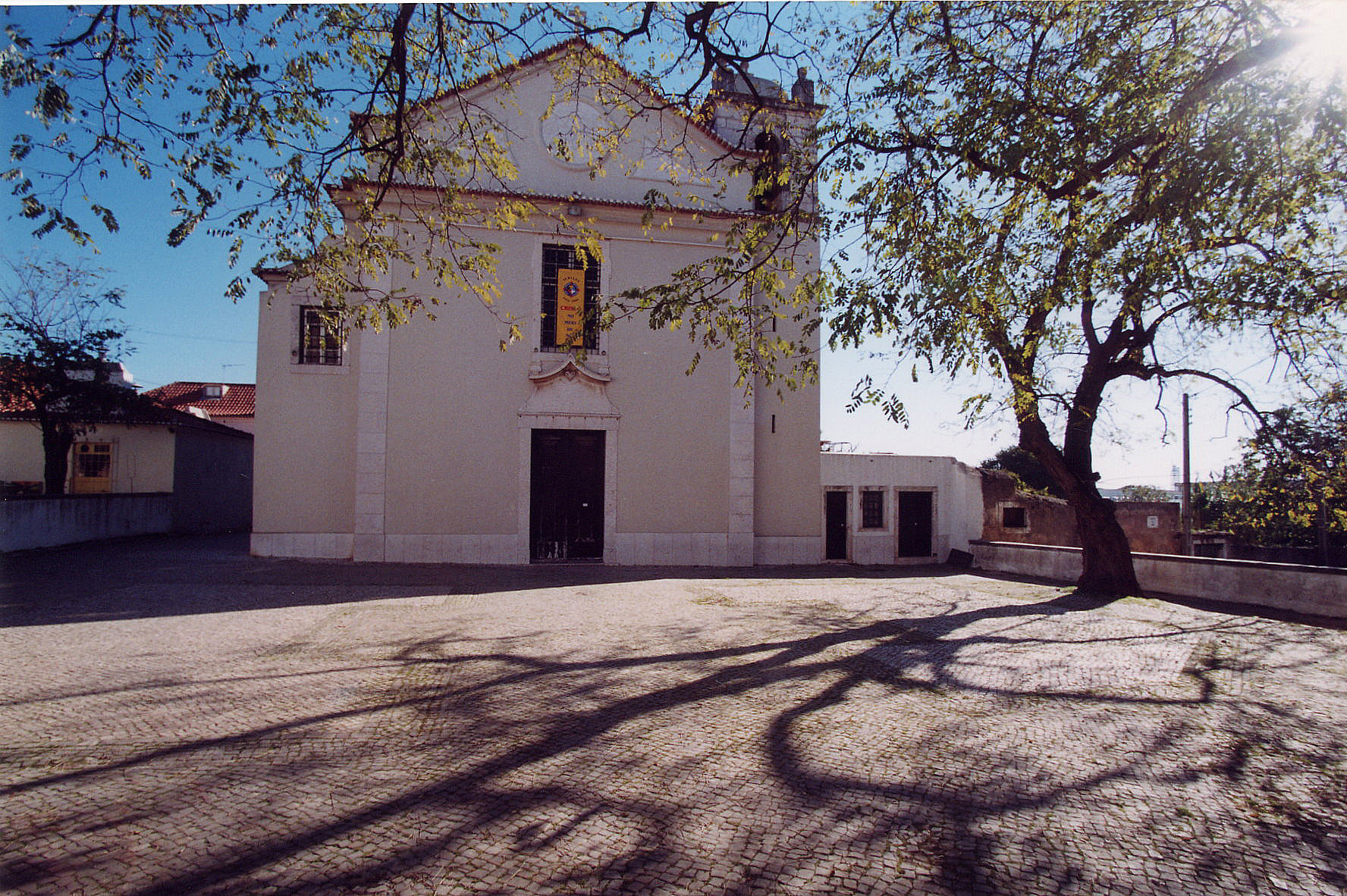 This image represents the Church of Santa Maria Groves, located in the parish of Groves, municipality of Lisbon, Estremadura.